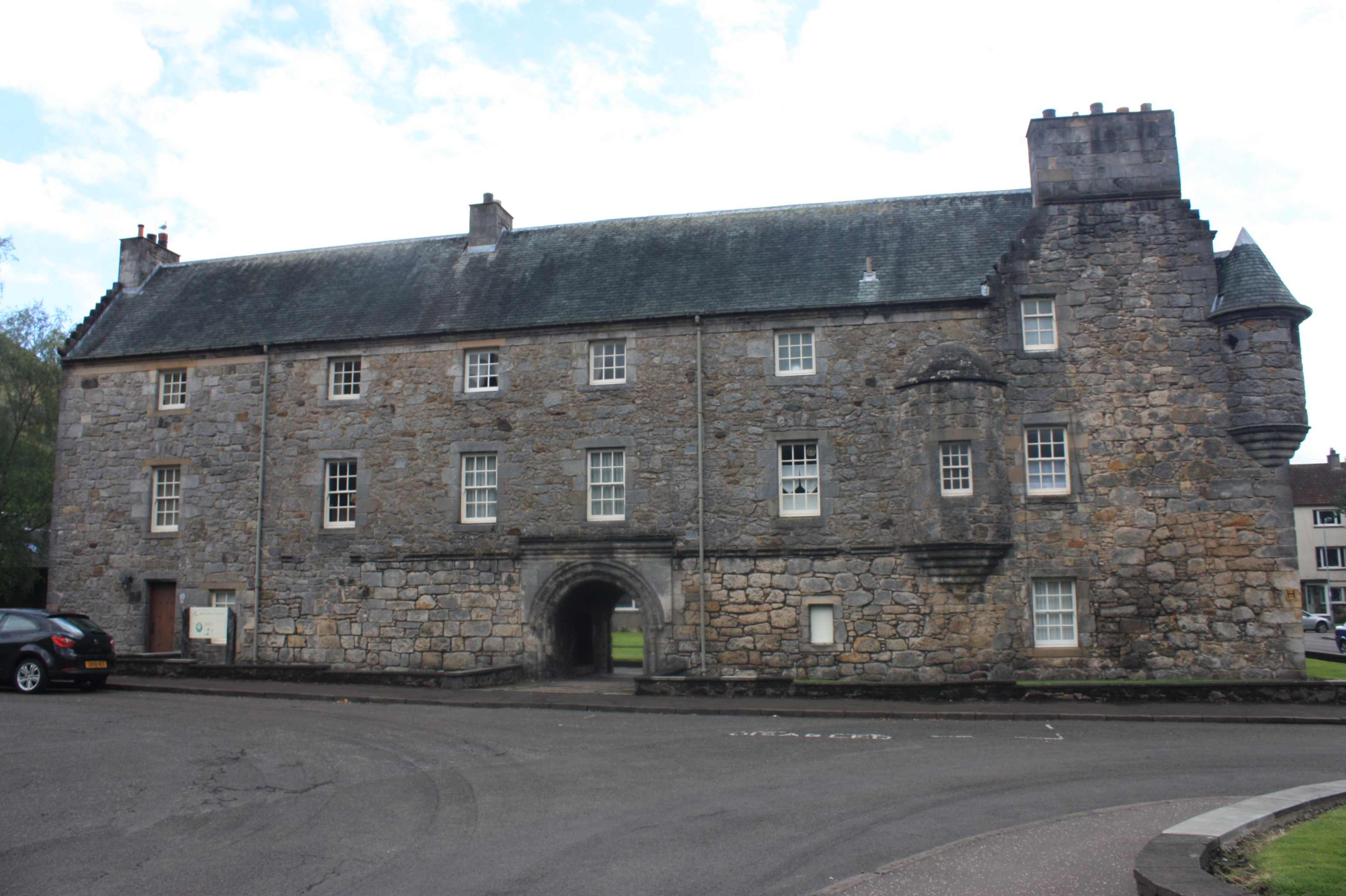 Menstrie Castle from the west (approach) road